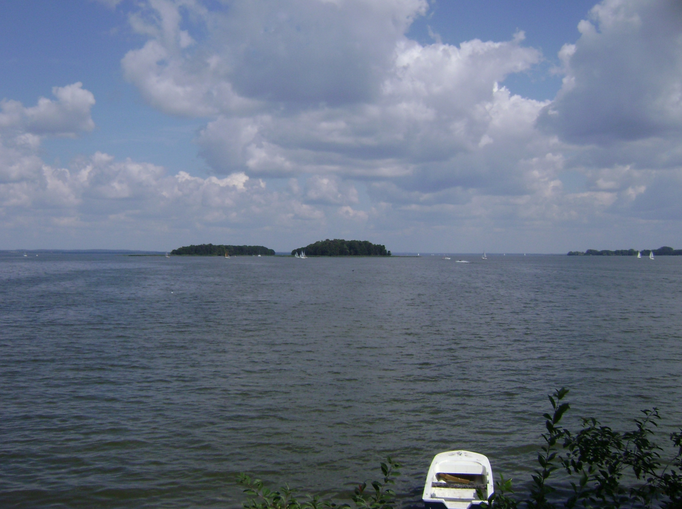 Poland. Gmina Ruciane-Nida. Niedźwiedzi Róg. Śniardwy Lake